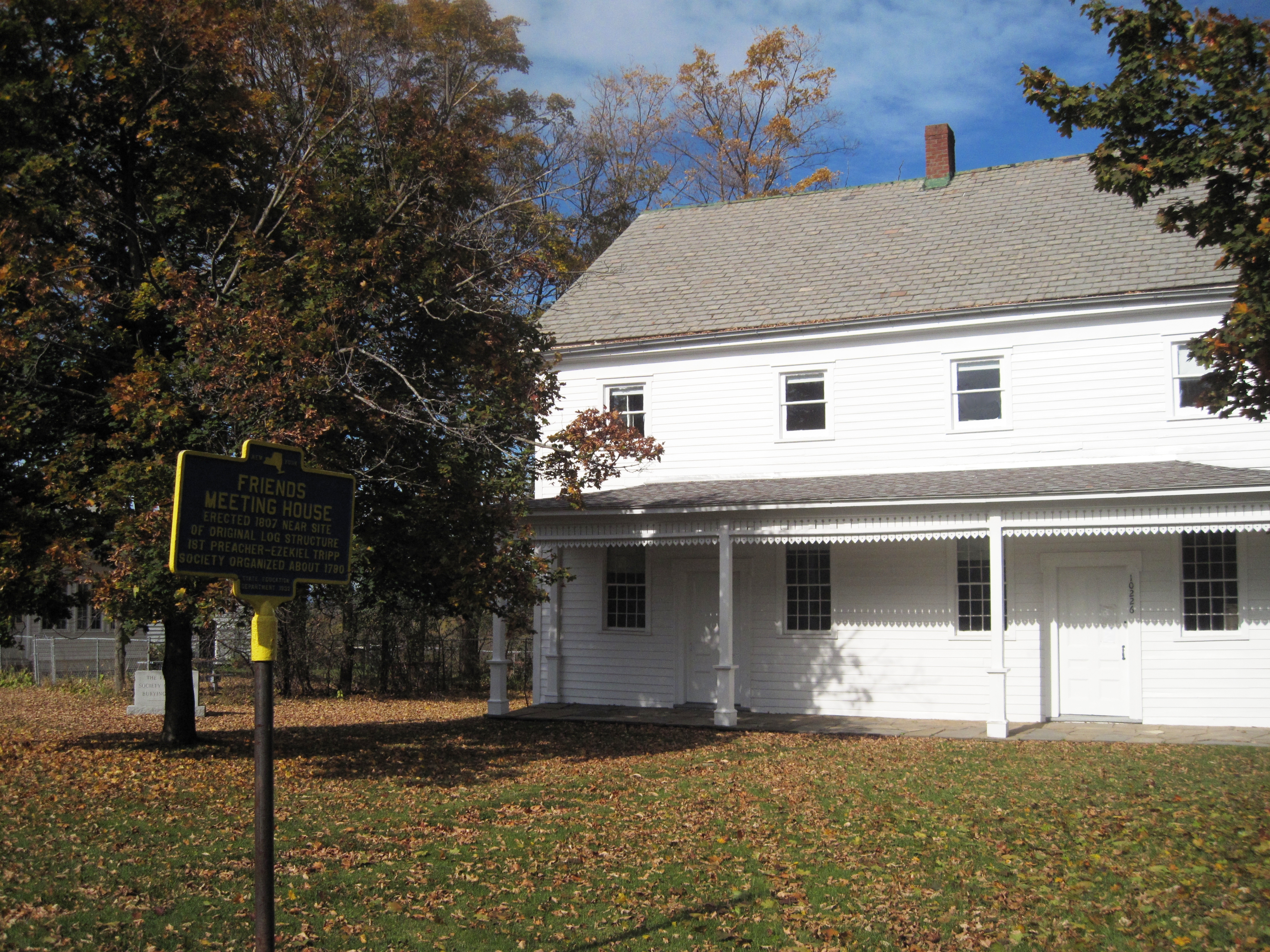 Examples of the plain architectural styles of the Quaker settlers of the early 1800's. The Friends (Quaker) Meeting House is located on Route 7 in the Quaker Street hamlet. Photo by Wendy Voelker